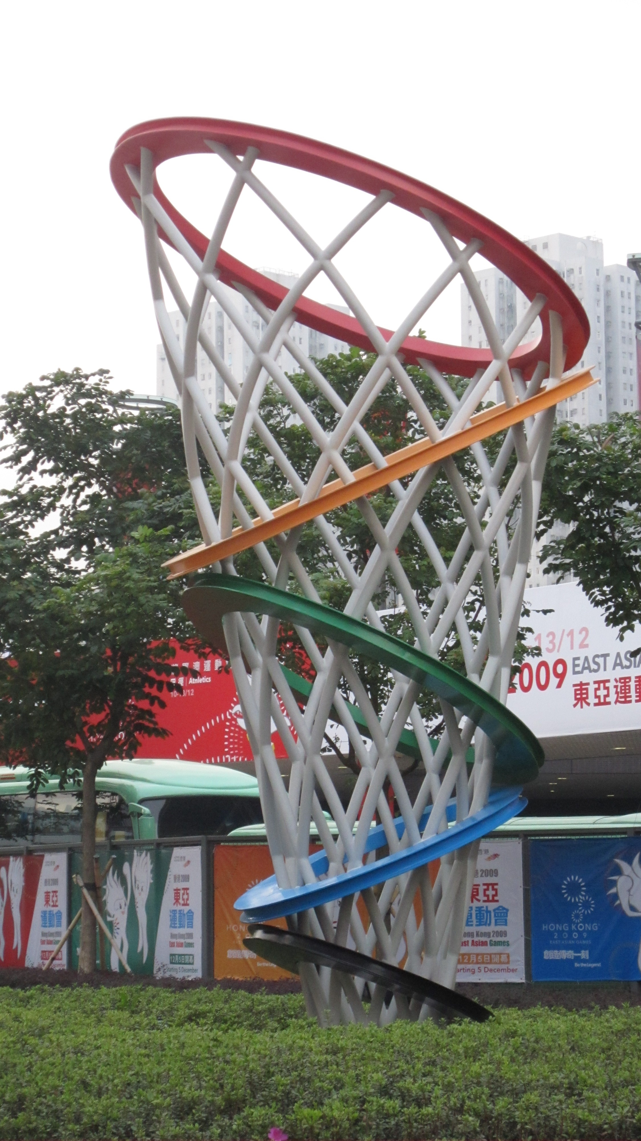 Hong Kong East Asian Games